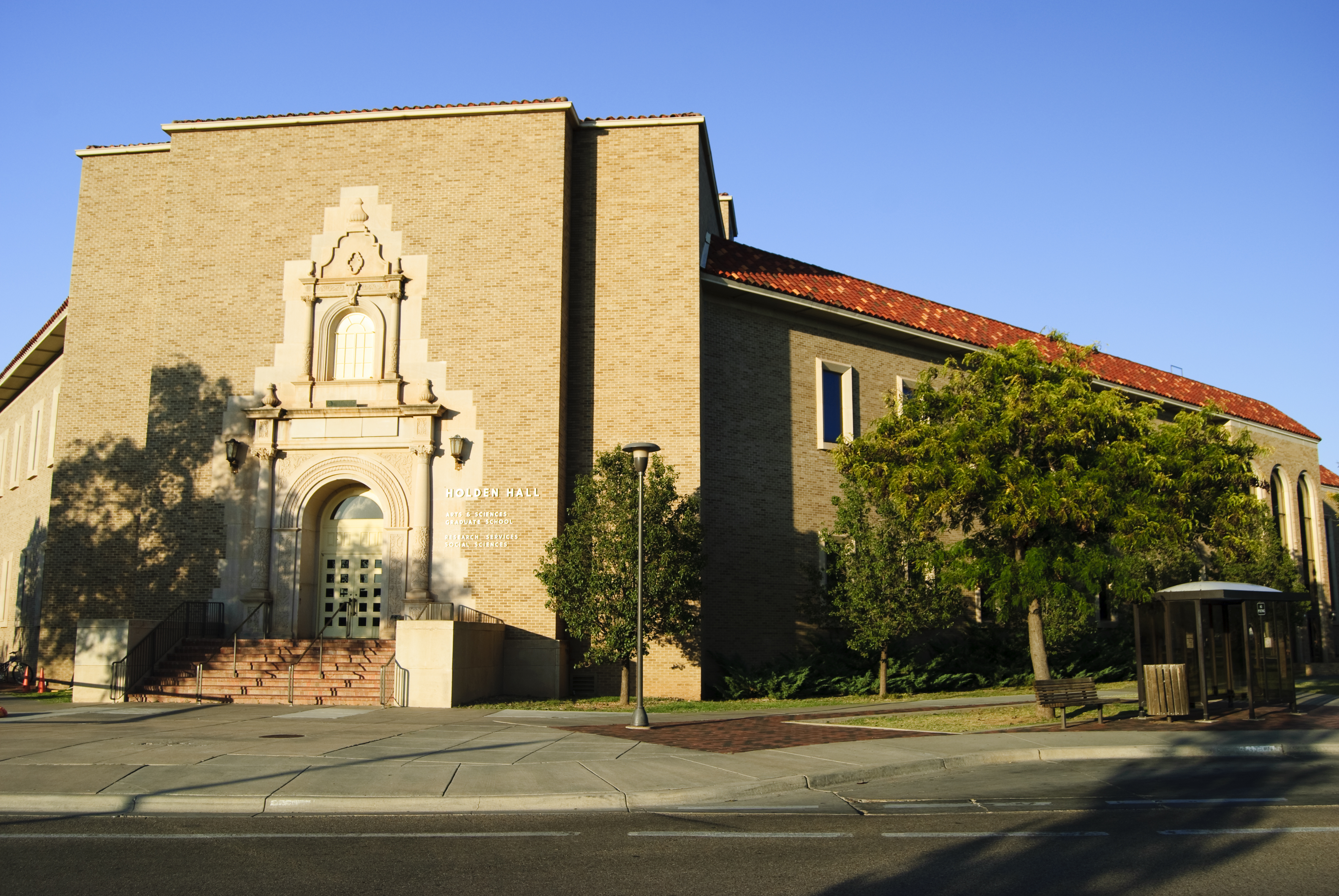 The Holden hall at Texas Tech University in Lubbock, Texas, United States.